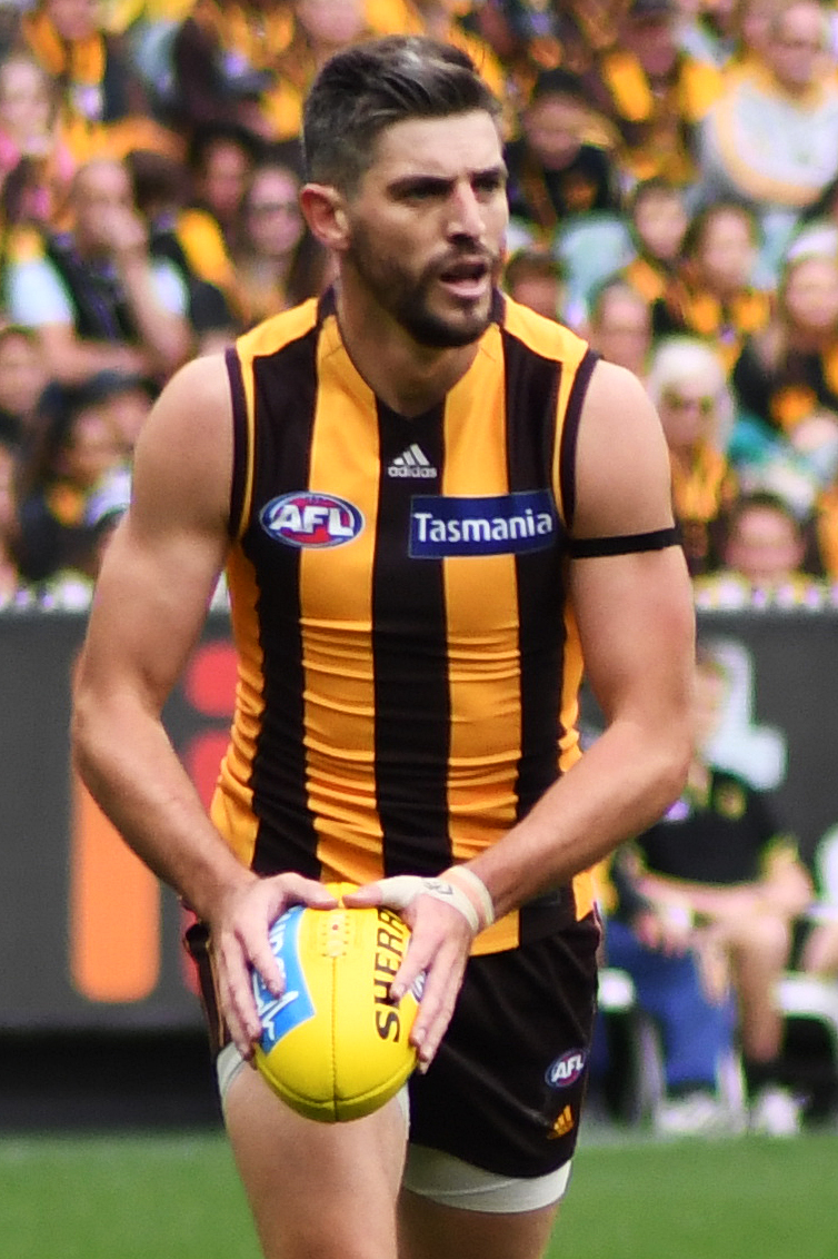 Ricky Henderson of Hawthorn during the 2019 AFL round 5 match between Hawthorn and Geelong at the Melbourne Cricket Ground on Monday, 22 April 2019 in Melbourne, Victoria.